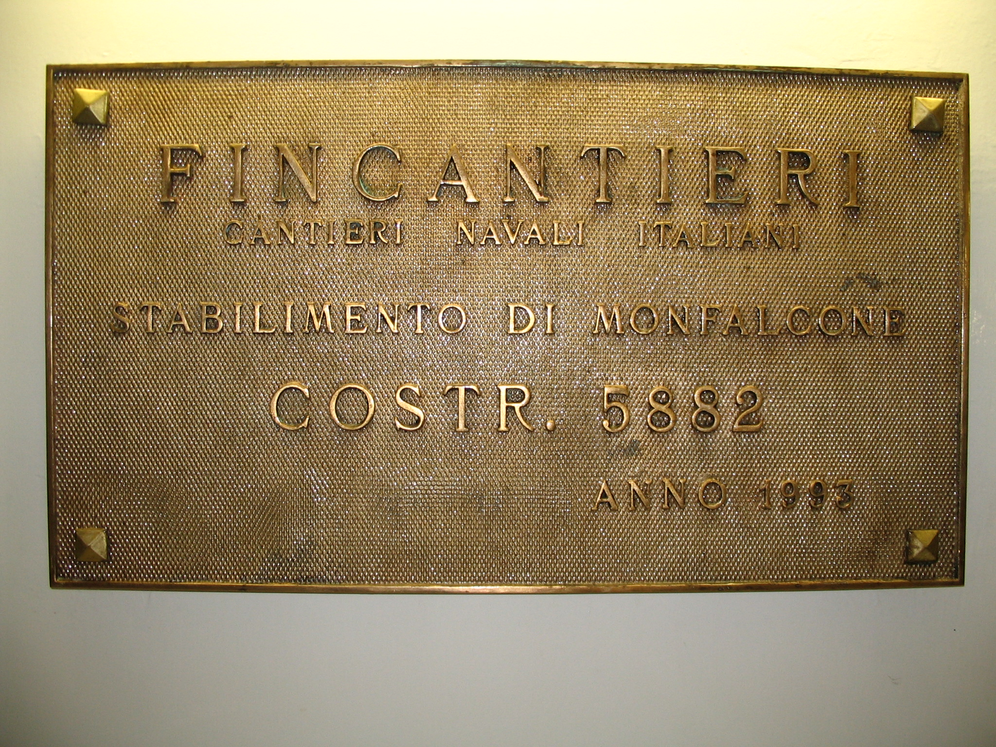 MS Maasdam is a Holland America Line cruise ship that was built in 1993 by Fincantieri - Cantieri Navali Italiani S.p.A in its Monfalcone shipyard in Monfalcone, Gorizia, Friuli-Venezia Giulia, Italy. It is Fincantieri's hull number 5882.